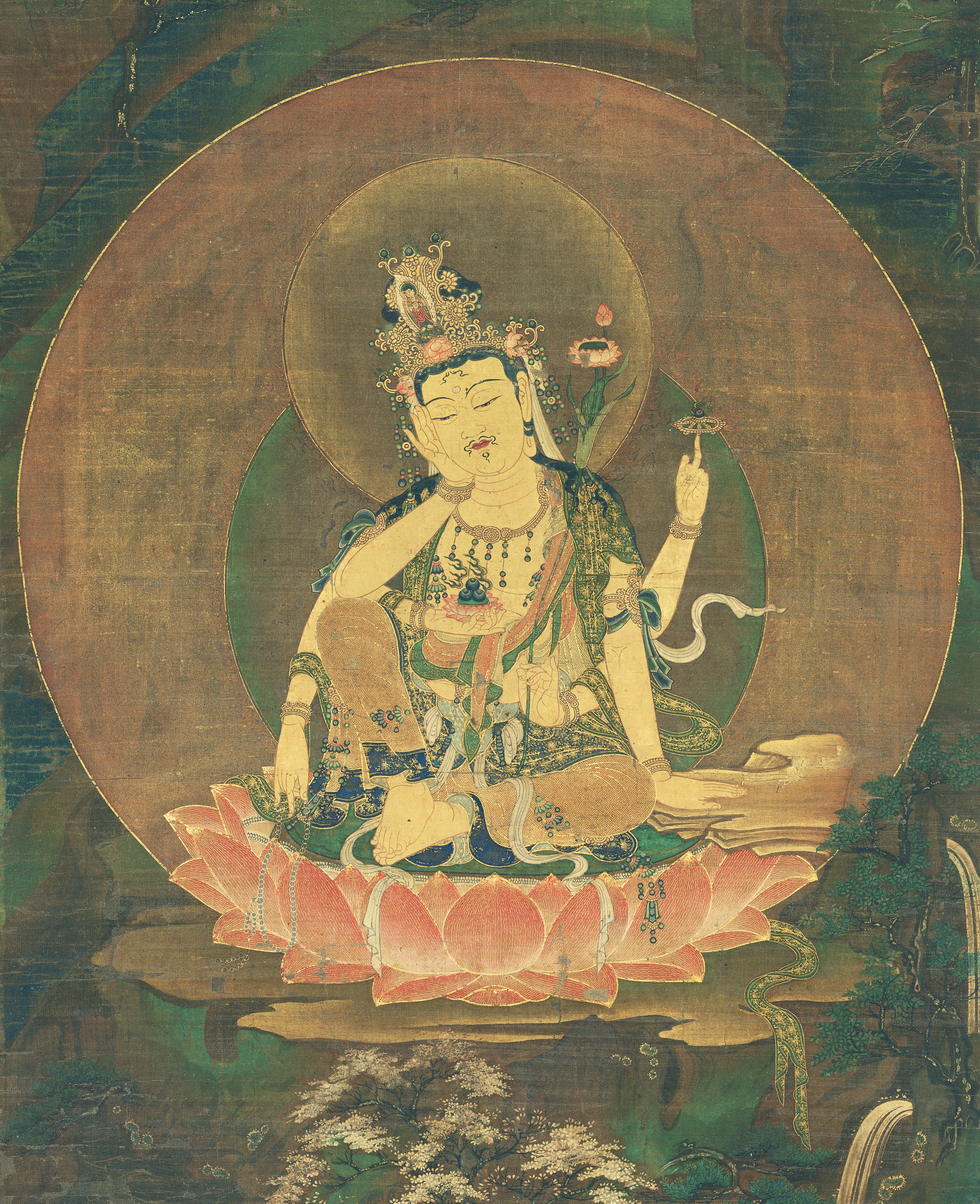 Nyoirin Kannon, Nara National Museum